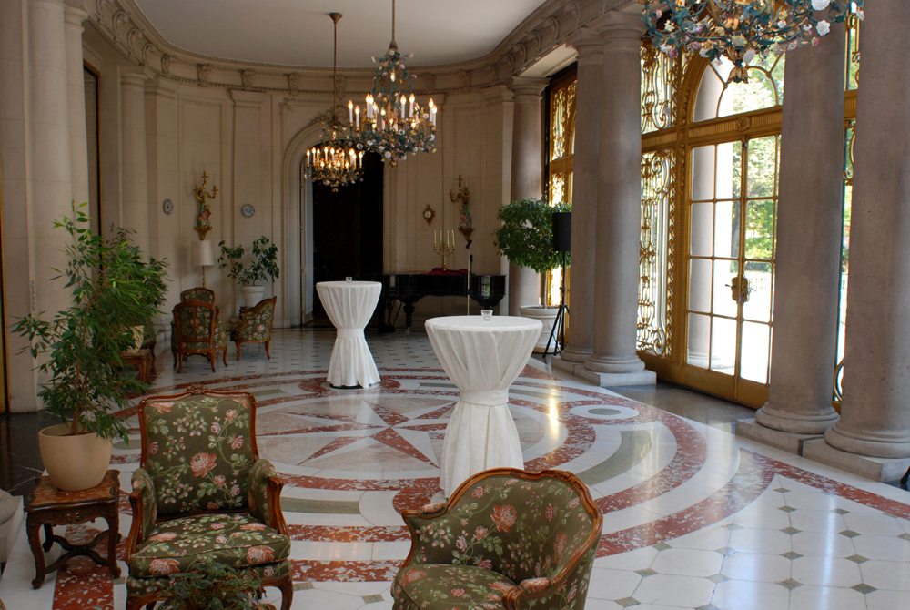 The Residence of the U.S. Ambassador in Prague’s Bubeneč was built by Otto Petschek in 1924—30.